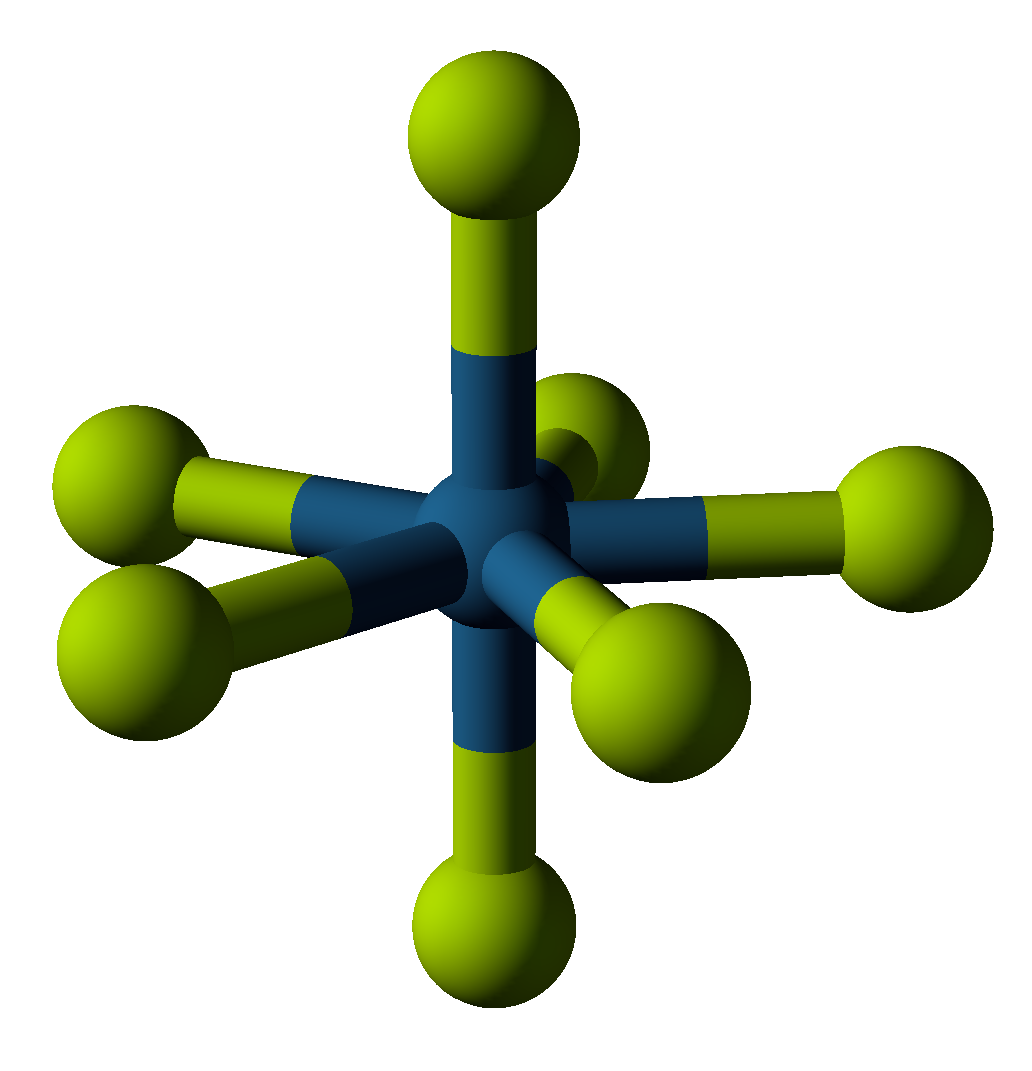 A 3D ball-and-stick molecular model of rhenium heptafluoride, a pentagonal bipyramid